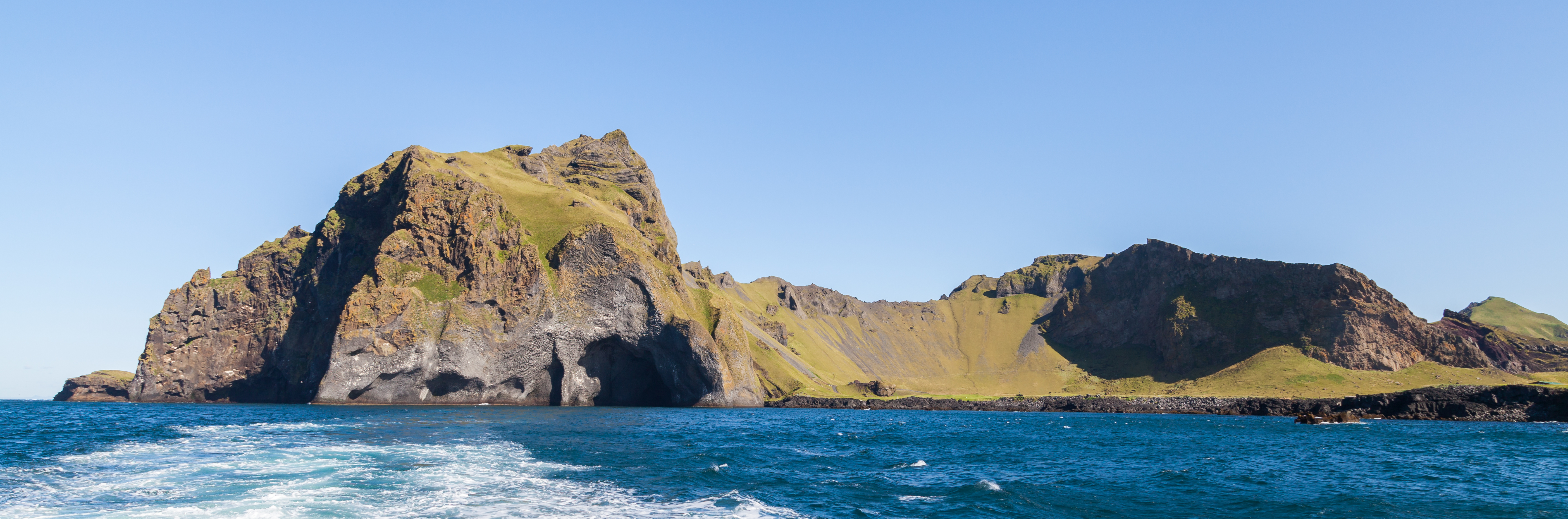 Elephant Rock, Heimaey, Westman Islands, Suðurland, Iceland